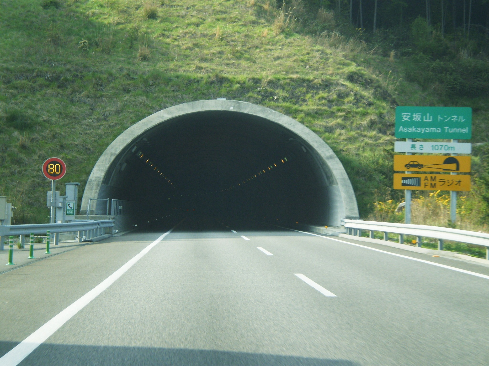 Asakayama tunnel in Shin-Meishin Expressway. I took this image at Asakayama-cho Kameyama City Mie Pref., Japan.